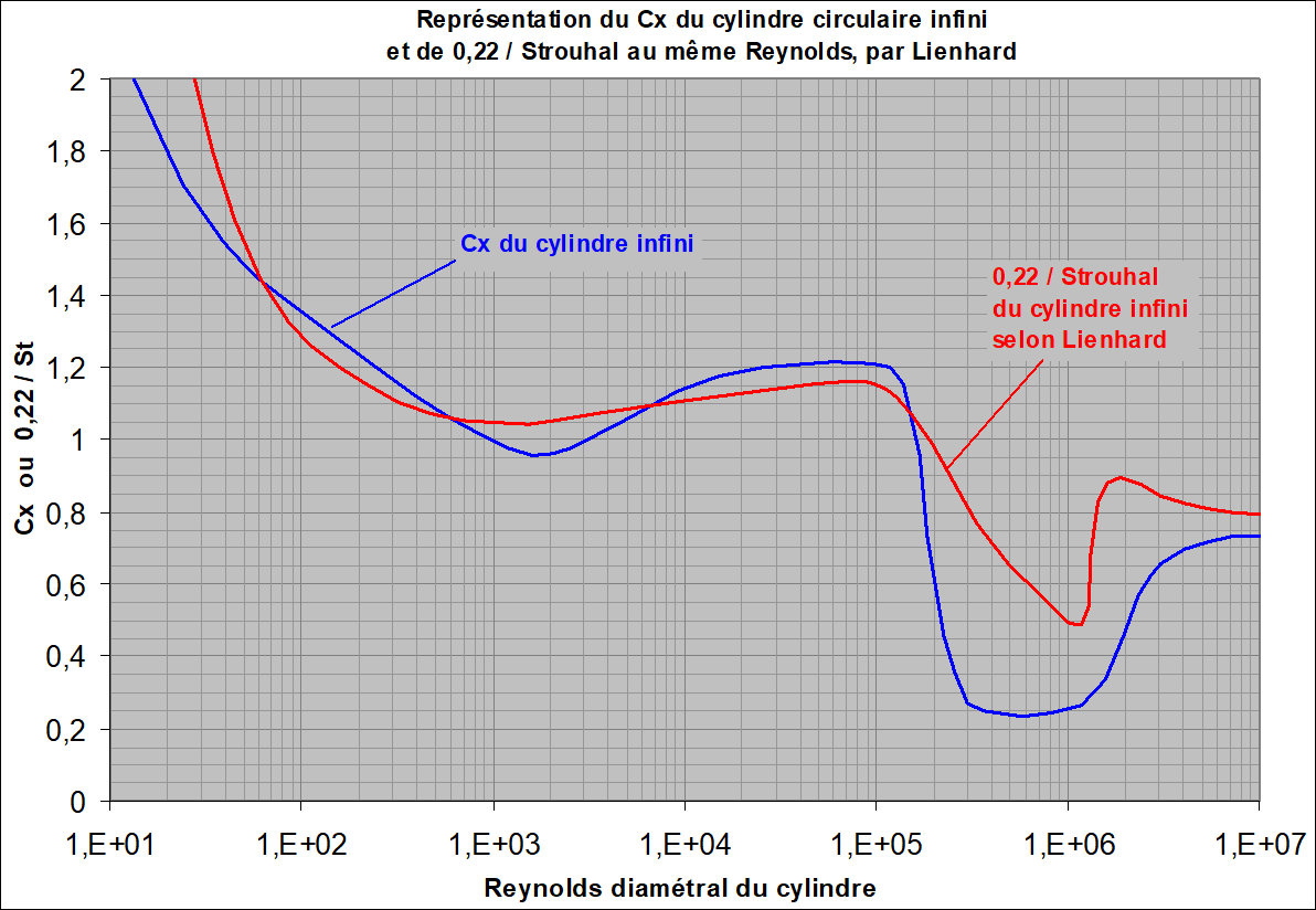 Cd of the infinite cylinder compared with 0,2 / its Strouhal, according to Lienhard [SYNOPSIS OF LIFT, DRAG, AND VORTEX FREQUENCY DATA FOR RIGID CIRCULAR CYLINDER, by John H. LIENHARD, WASHINGTON STATE UNIVERSITY